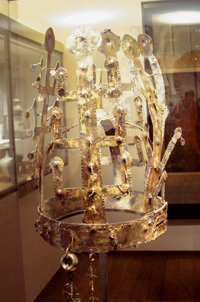 Crown of the Silla kingdom, Korea, 5-6th century